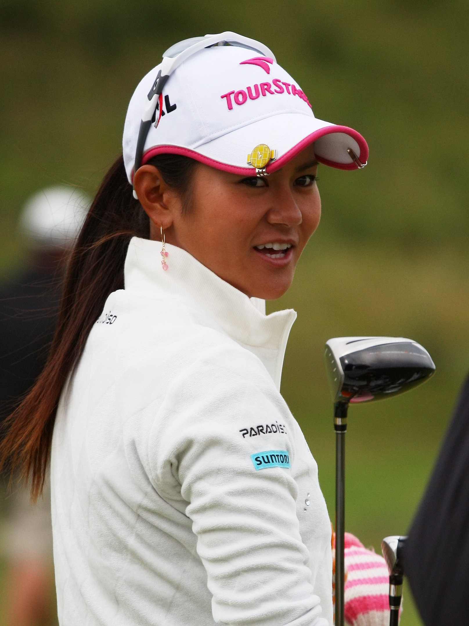 SOUTHPORT, UNITED KINGDOM – AUGUST 01: Miyazato Ai of Japan on the driving range before final round of 2010 Ricoh Women's British Open held at Royal Birkdale on August 1, 2010 in Southport, England. (Photo by Wojciech Migda)